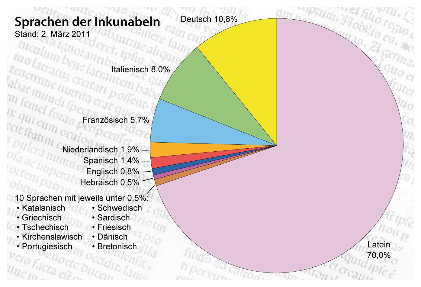 Incunabula distribution by language. The data is based on the Incunabula Short Title Catalogue of the British Library (as of March 2, 2011).